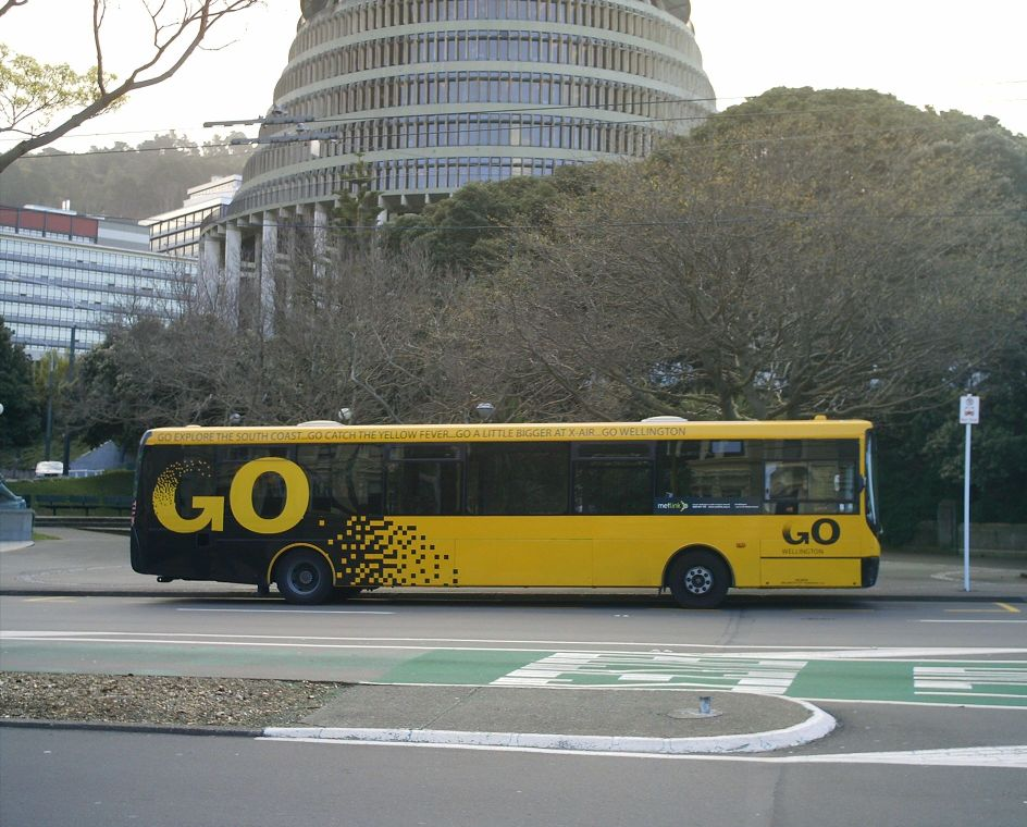 Photo of a bus belonging to GoWellington company